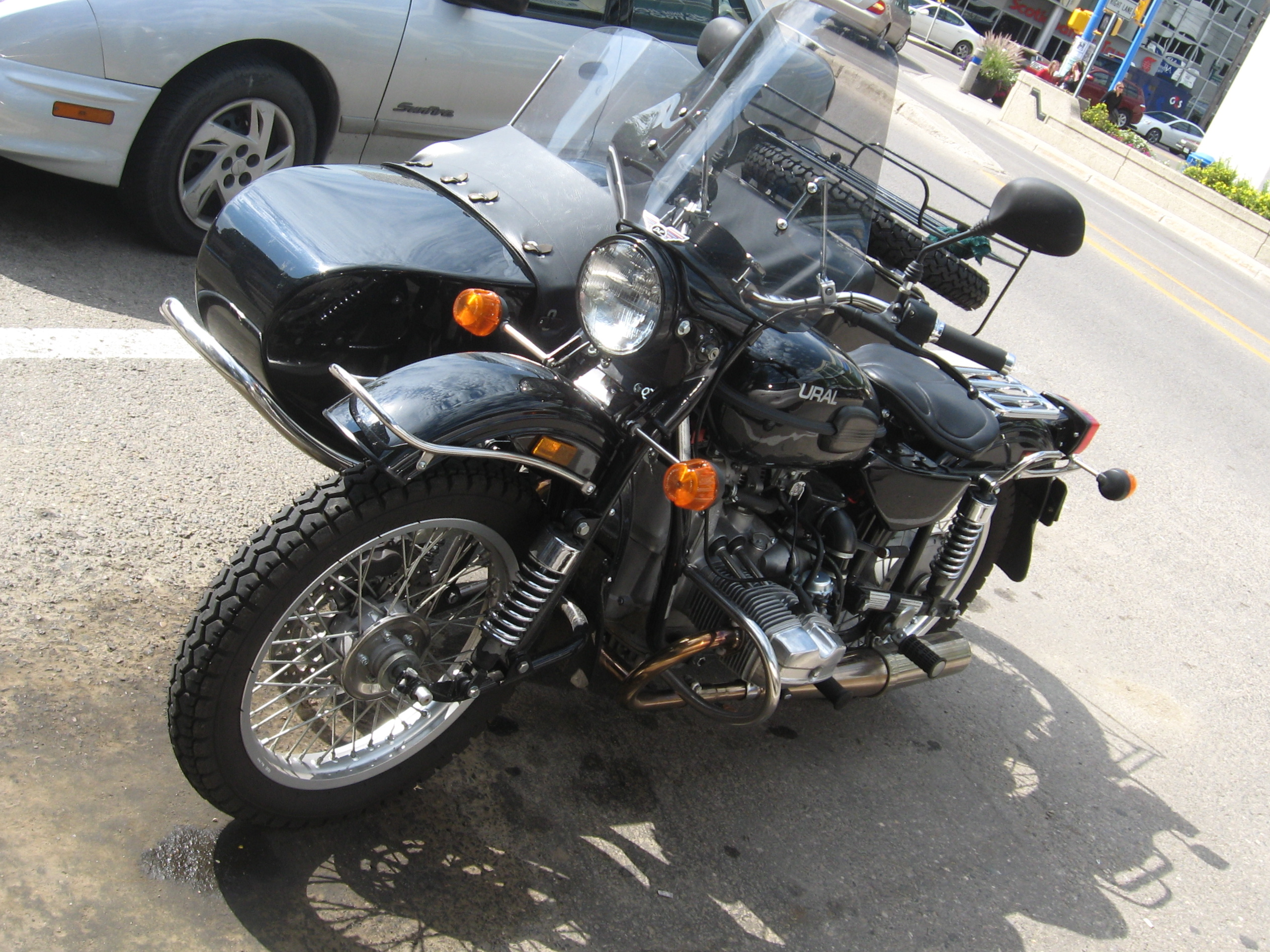 Ural motorcycle with sidecar, shot on local street